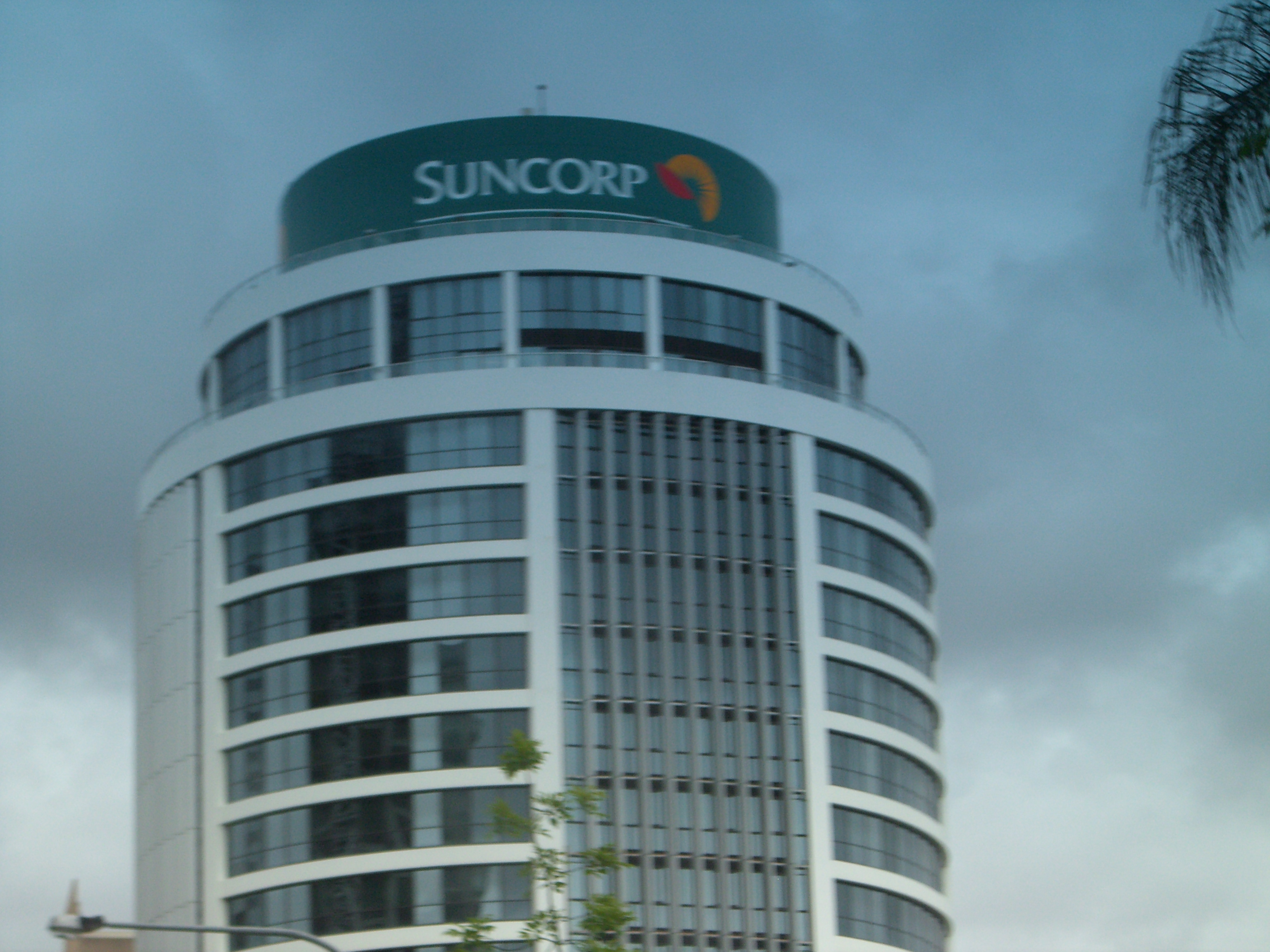 Photo taken of the Suncorp Building in Brisbane.